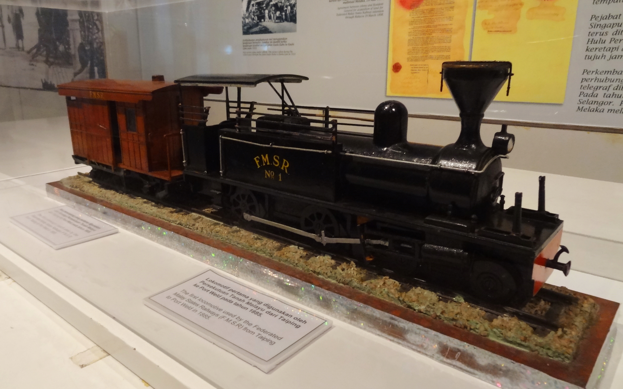 The scale model of FMSR No.1 steam locomotive shown in Malaysia National Museum.